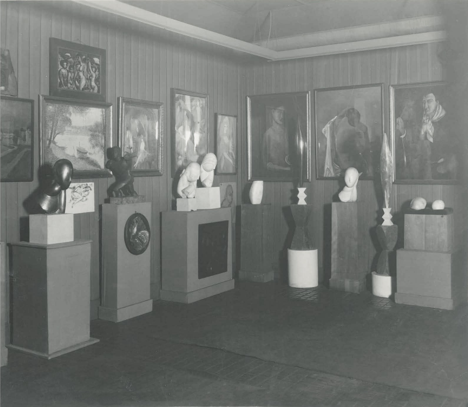 Photograph of works in the John Quinn estate auction: Paintings and sculptures, The renowned collection of modern and ultra-modern art formed by the late John Quinn, Exhibition and sale at the American Art Galleries. Sale conducted by Bernet and Parke. Catalogue published by American Art Association, New York, 1927. Black and white photographic print